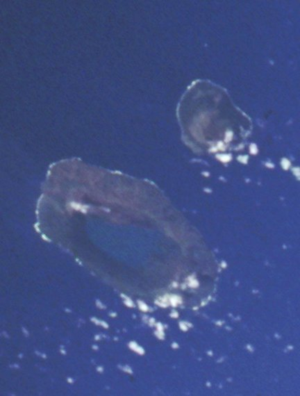 The Tongan islands of Tofua (lower left) and Kao (upper right).